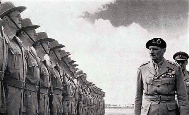 Field Marshal Viscount Montgomery, Chief of the Imperial General Staff, inspects a guard of honour of the 1st Bn, the Royal Rhodesia Regiment on his arrival at Belvedere Airport near Salisbury, Southern Rhodesia in December 1947. Brigadier Storr Garlake, the commander of Southern Rhodesia's armed forces, is behind Montgomery.